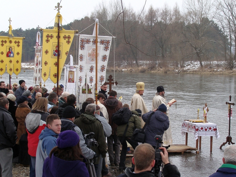 The Great Blessing of Waters on the San River during Epiphany